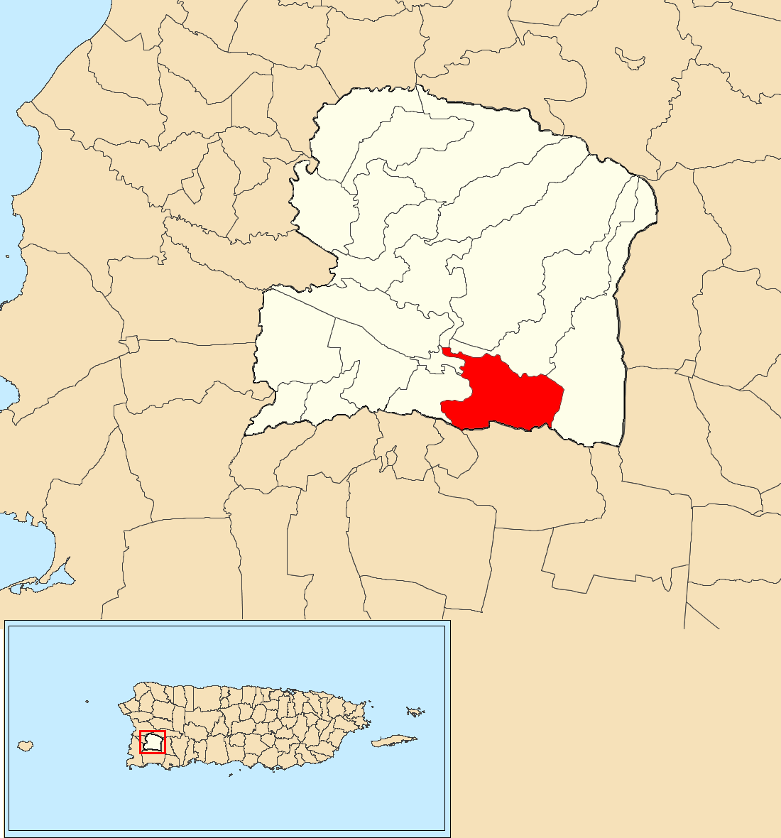 Retiro, San Germán, Puerto Rico locator map